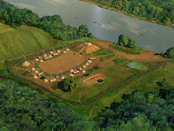 Artists conception of the Big Eddy phase Taskigi Mound and village site (1EE1), a South Appalachian Mississippian culture archaeological site located where the Coosa and Tallapoosa Rivers join to form the Alabama River in Elmore County, Alabama. All rights held by the artist, Herb Roe© 2020.